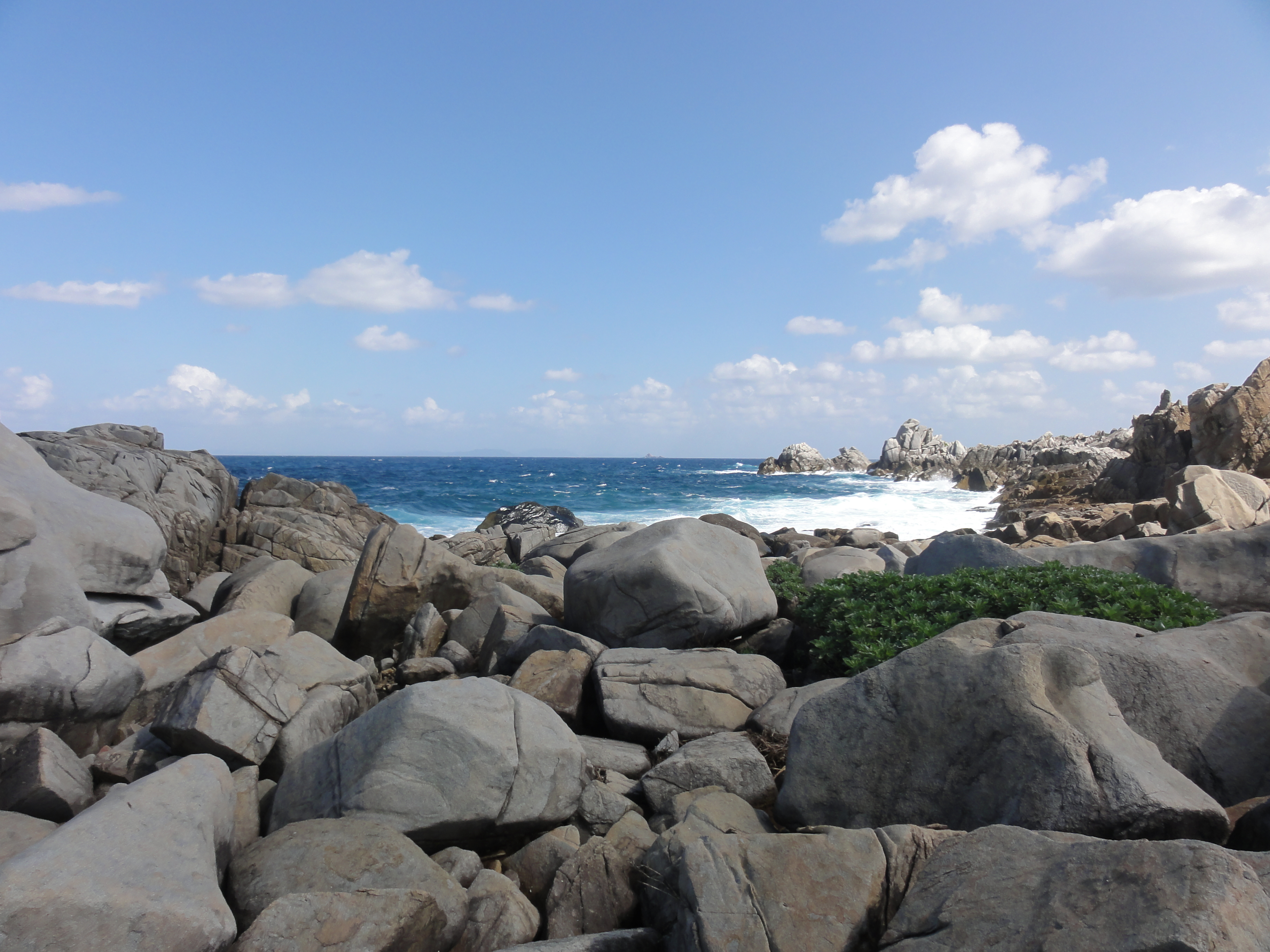 Mushiroze inTokunoshima,Kagoshima Pref., Japan